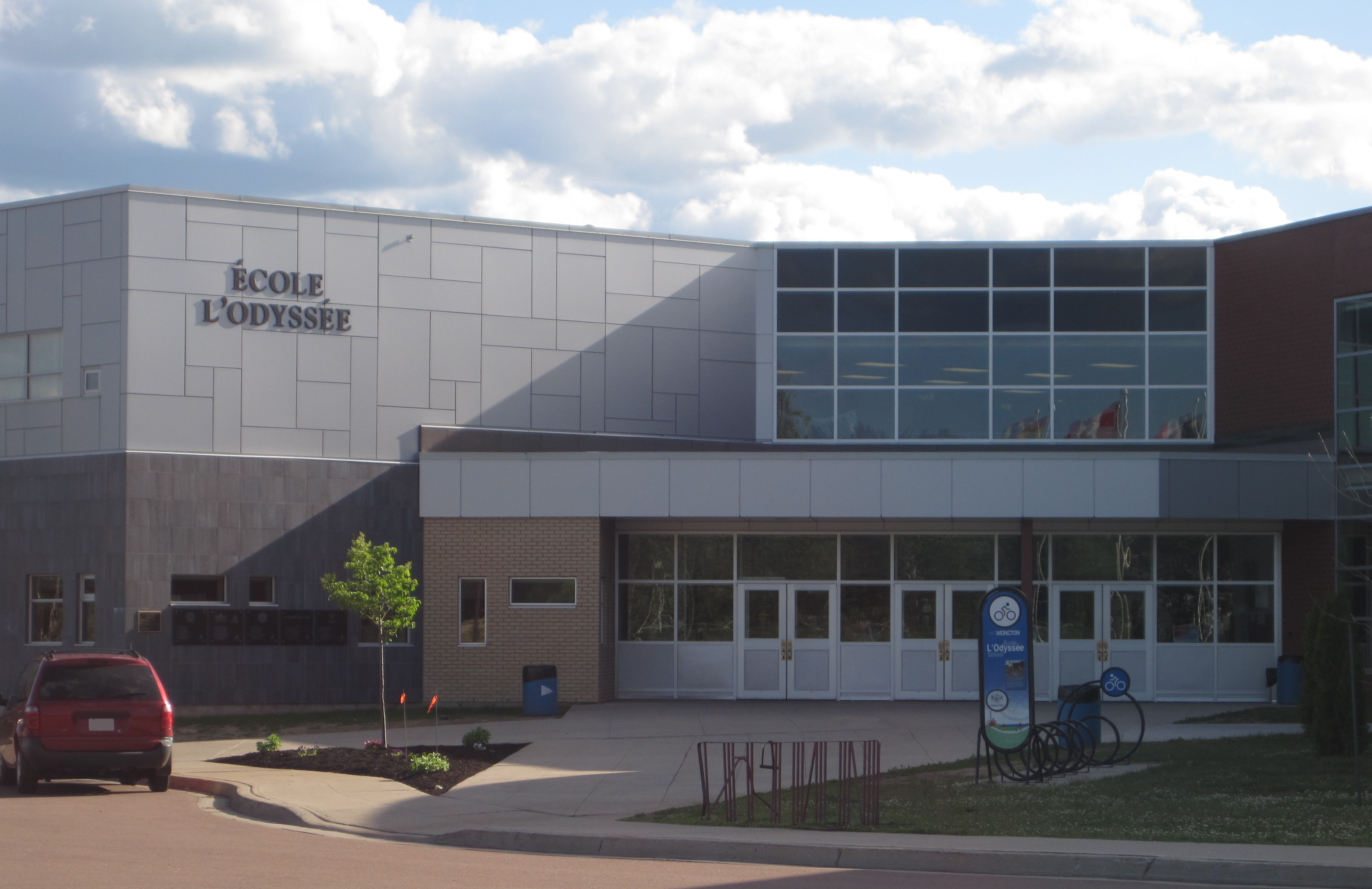 A photo of École L'Odyssée in Moncton, New Brunswick, Canada.